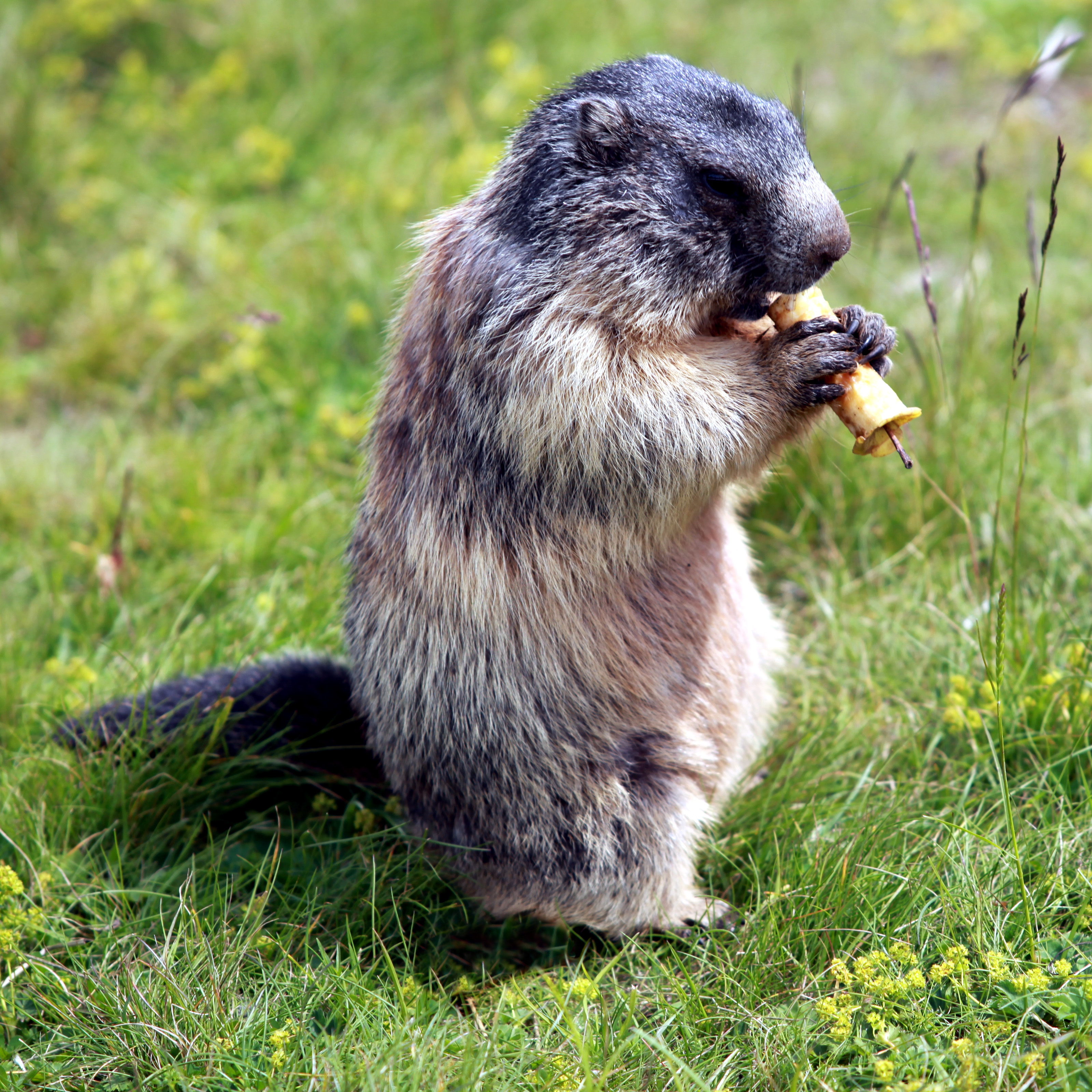 Alpine Marmot at the Grimselpass.